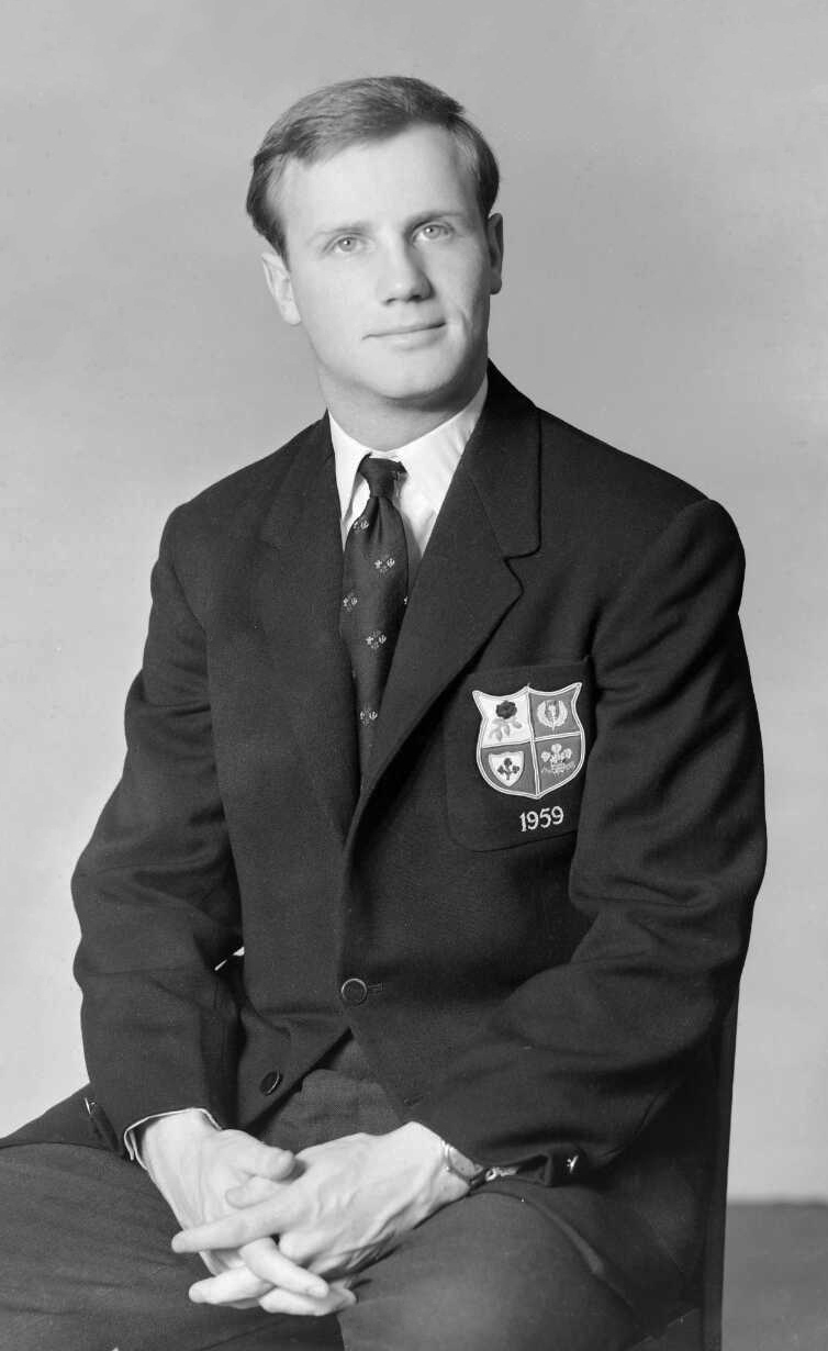 Andrew Armstrong Mulligan, captain of the British Lions rugby team touring New Zealand in 1959